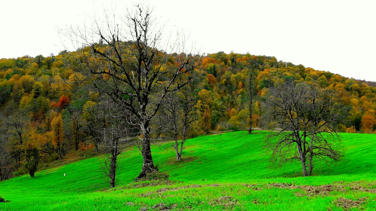 فصل خزان